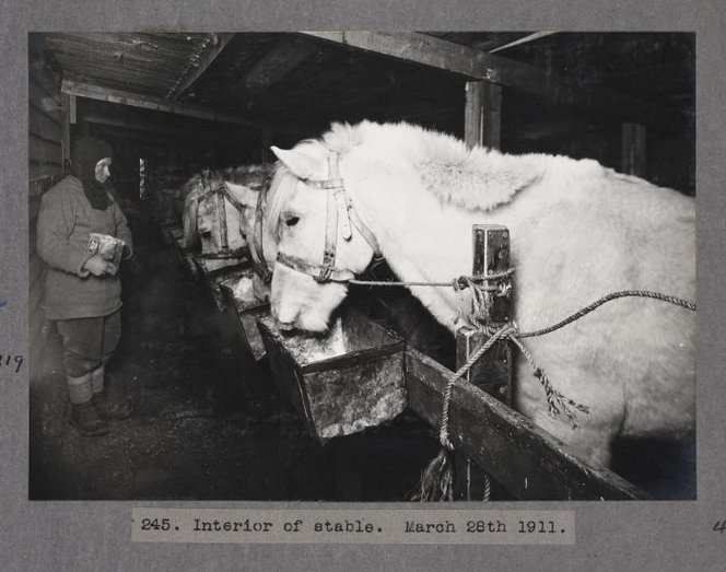 Interior of the stable. March 28th 1911